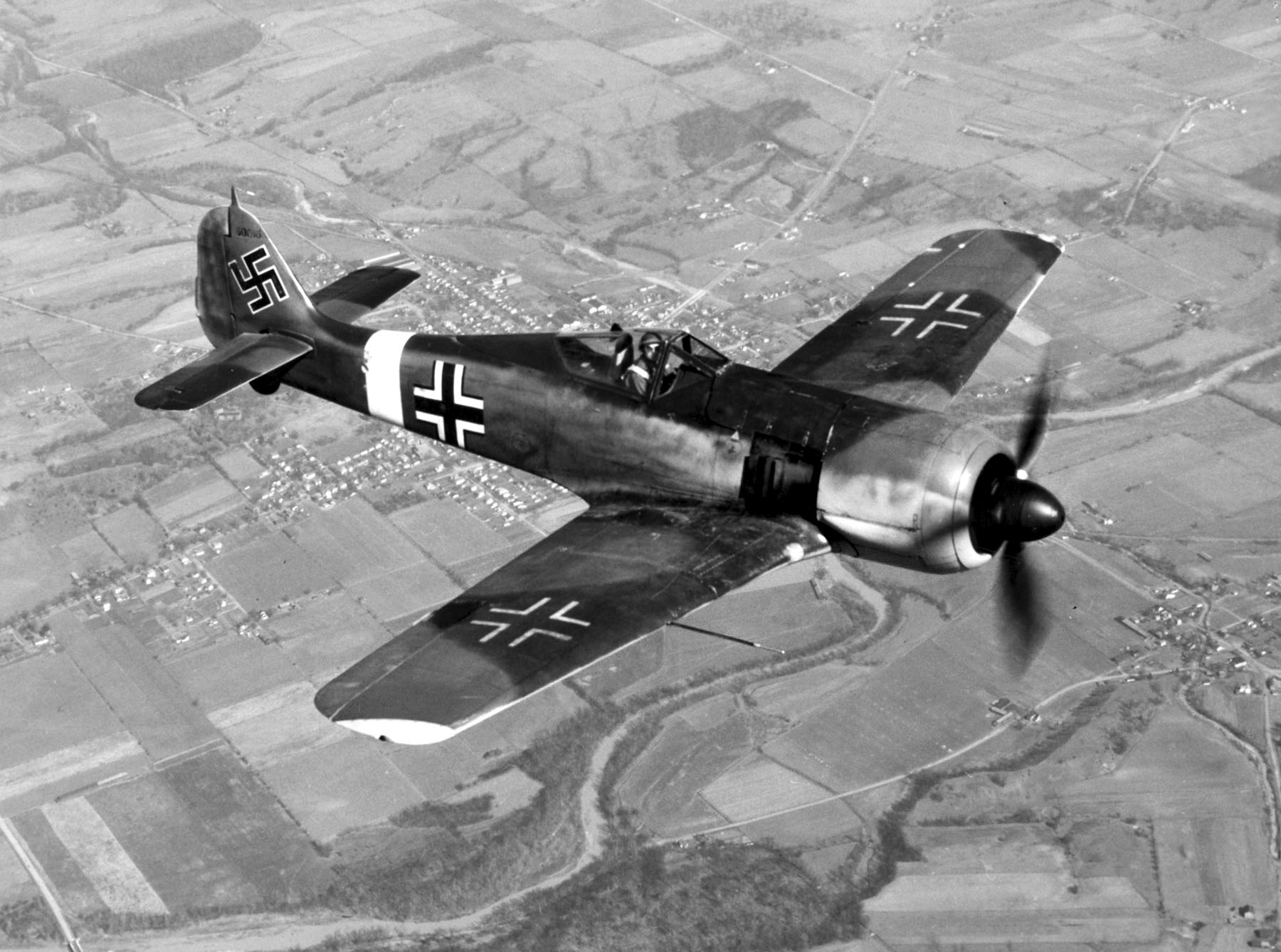 A captured Focke-Wulf Fw 190A in replicated Luftwaffe insignia.